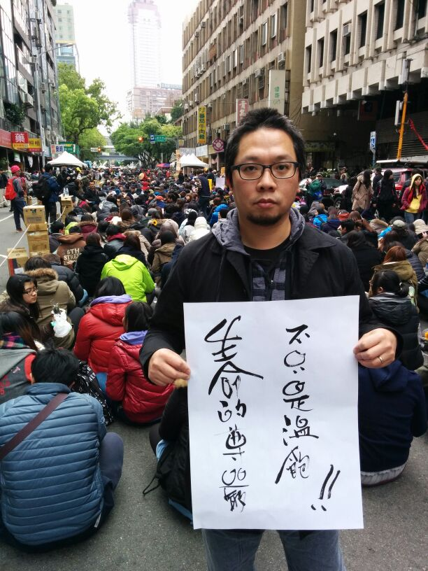 protesters outside Legislative Yuan in Taipei around 2.30pm on Mar 21, 2014